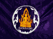 Flag of Phitsanulok Province